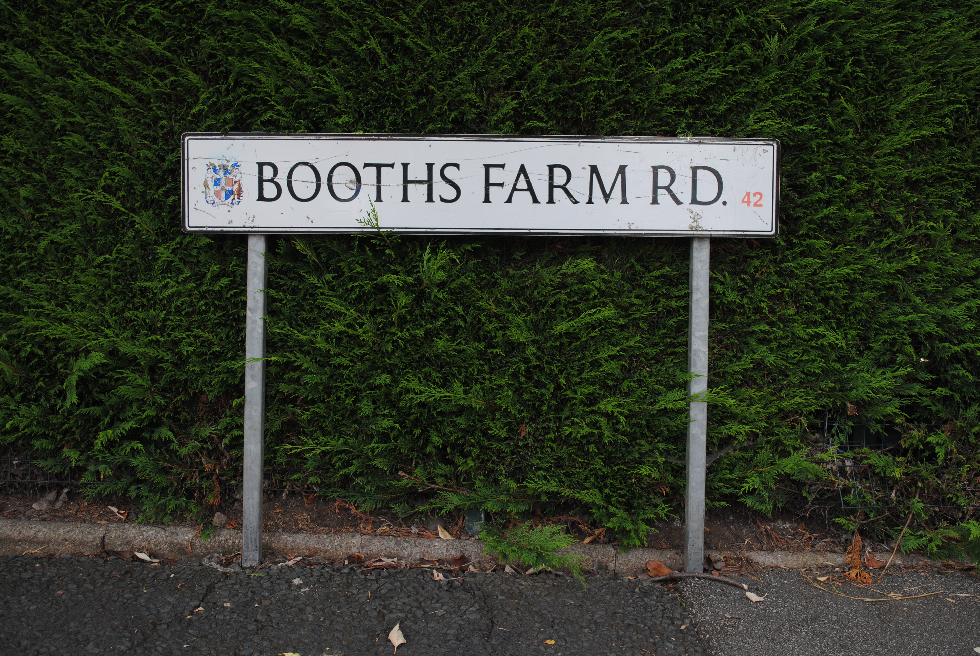 Booths Farm Rd street name plate, showing B42 postal code. Booths Farm was named after its occupant, the forger William Booth.